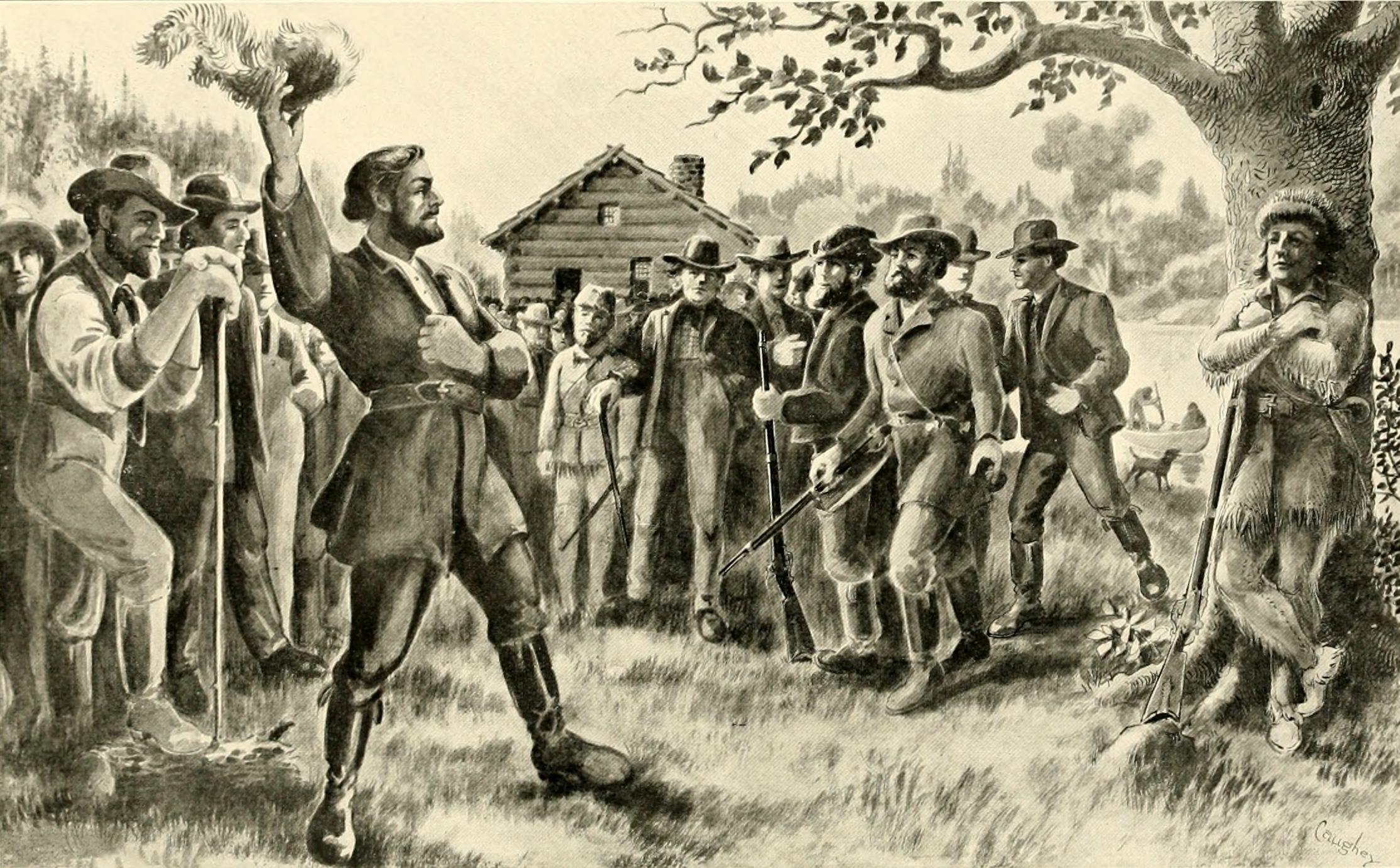 Original caption: JOE MEEK APPEALS FOR THE AMERICAN FLAG, AT CHAMPOEG, MAY 2, 1843